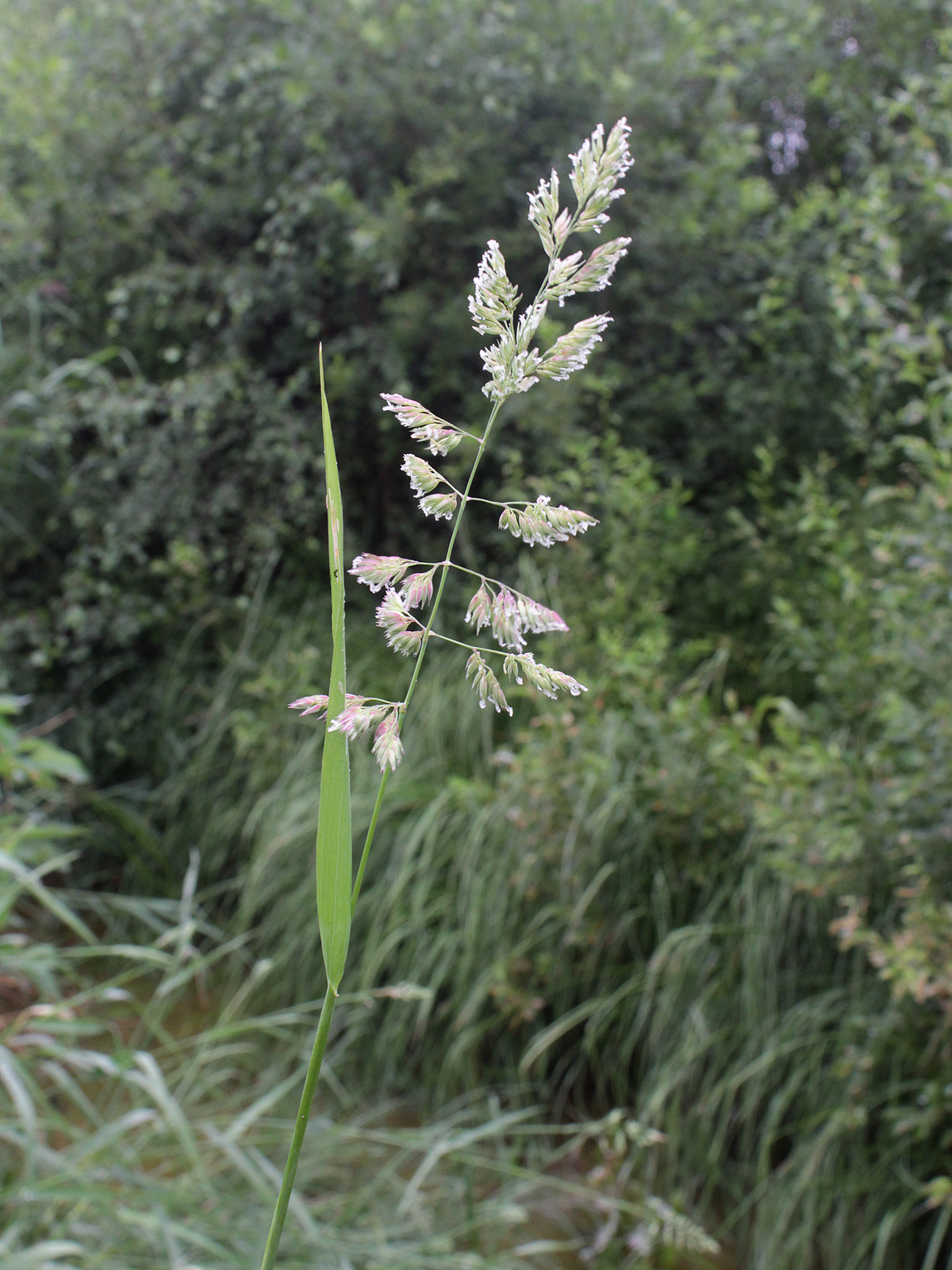 Poaceae, Phalaris arundinacea